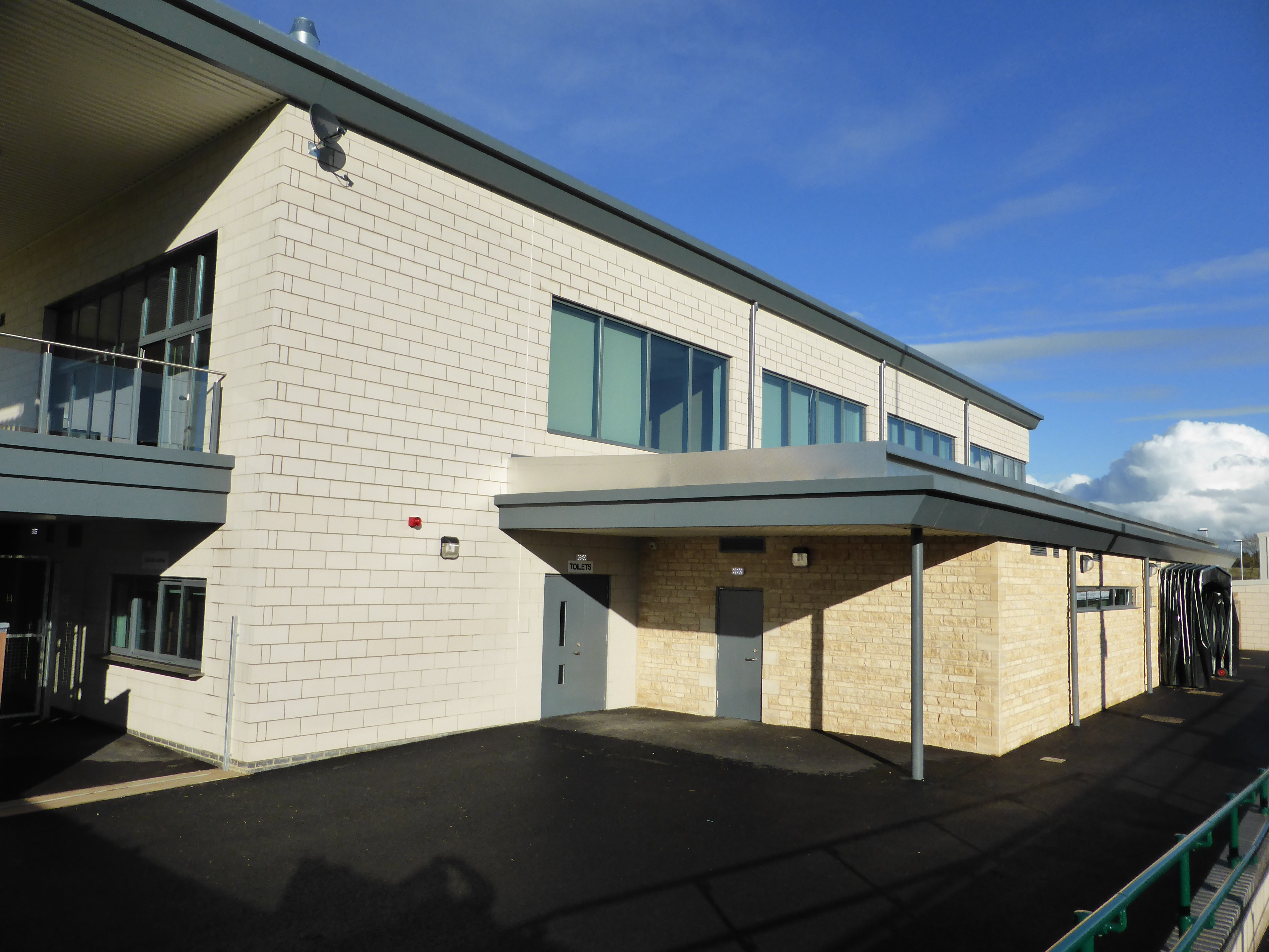 Changing rooms and sports hall